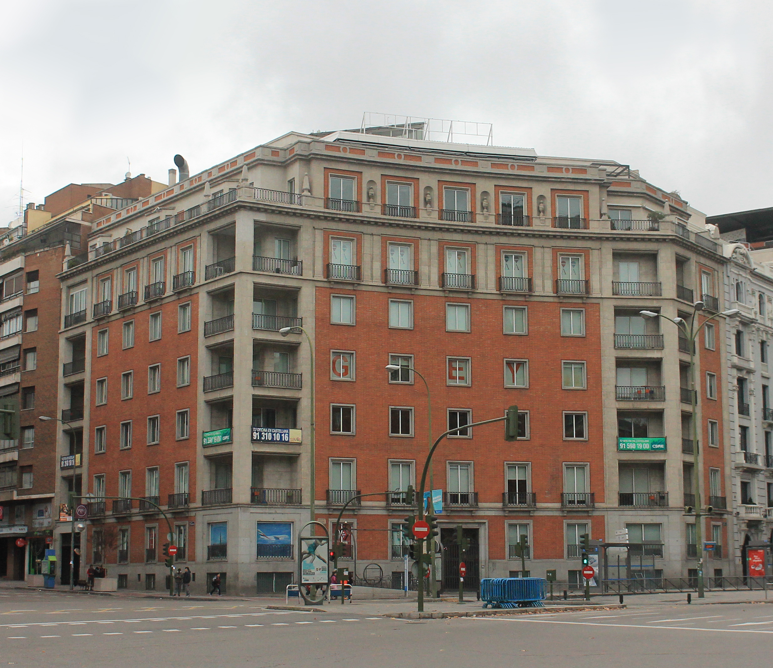 Building designed in 1940 by Luis Gutiérrez Soto and built between 1941 and 1945 as a housing. Gregorio Marañón lived in it.